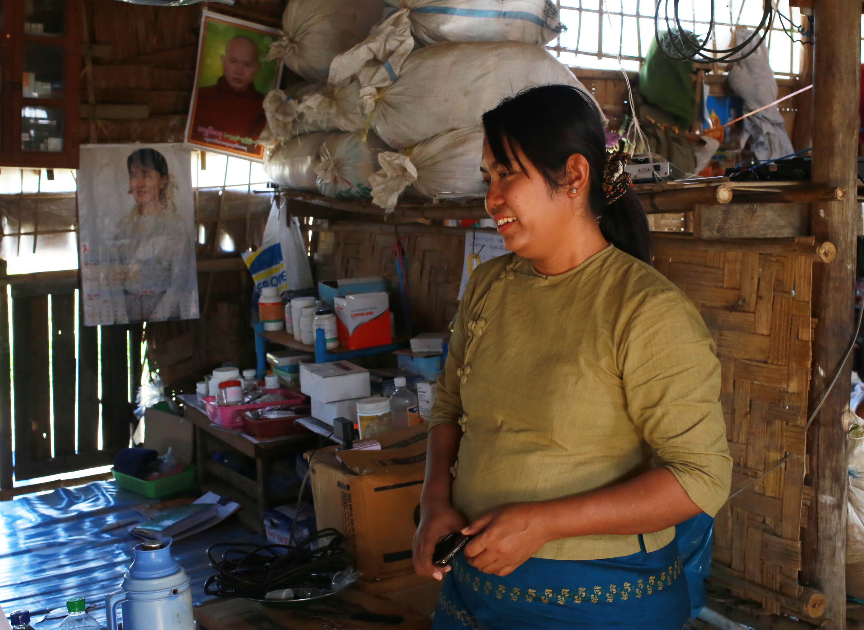 Phyu Phyu Thin talks with patients inside her HIV hospice center on the outskirt of Yangon, Myanmar on 27 January 2013.မြန်မာဘာသာ: HIV ရောဂါသည်များ စောင့်ရှောက်ရေး ဂေဟာ အတွင်း ဒေါ် ဖြူဖြူသင်း မှ လူနာများနှင့် စကားပြောနေသည်ကို ဇန်နဝါရီလ ၂၇ ရက် ၂၀၁၃ ခုနှစ် တွင်တွေ့ရစဉ်။